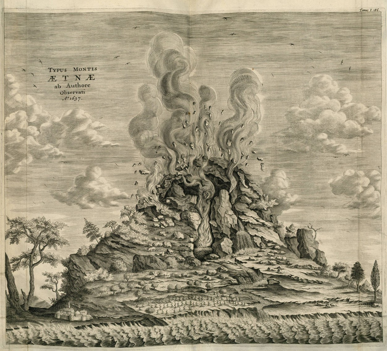 Illustration of Mount Etna as observed by the author in 1637. From Athanasius Kircher's Mundus Subterraneus, 1664.